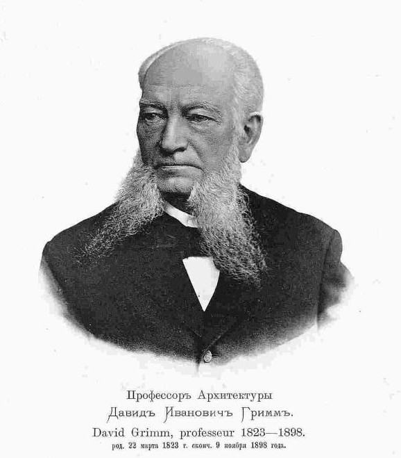 David Ivanovich Grimm, 1823-1891, russian architect